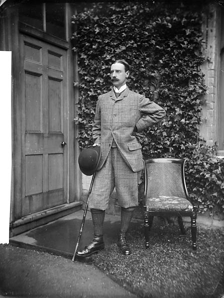 1 negative : glass, dry plate, b&w ; 21.5 x 16.5 cm.